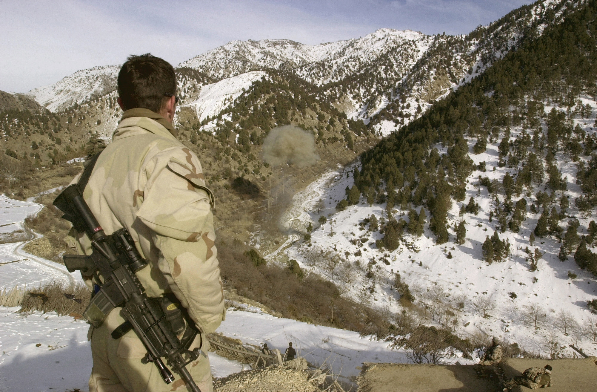 Eastern Afghanistan (February 12, 2002) - A Navy SEAL (SEa Air Land) observes munitions being destroyed. The SEALs discovered the munitions while conducting a Sensitive Site Exploitation (SSE) mission in Eastern Afghanistan. Navy Special Operations Forces are conducting missions in Afghanistan in support of Operation Enduring Freedom. U.S. Navy photo by Photographer's Mate 1st Class Tim Turner. (RELEASED)